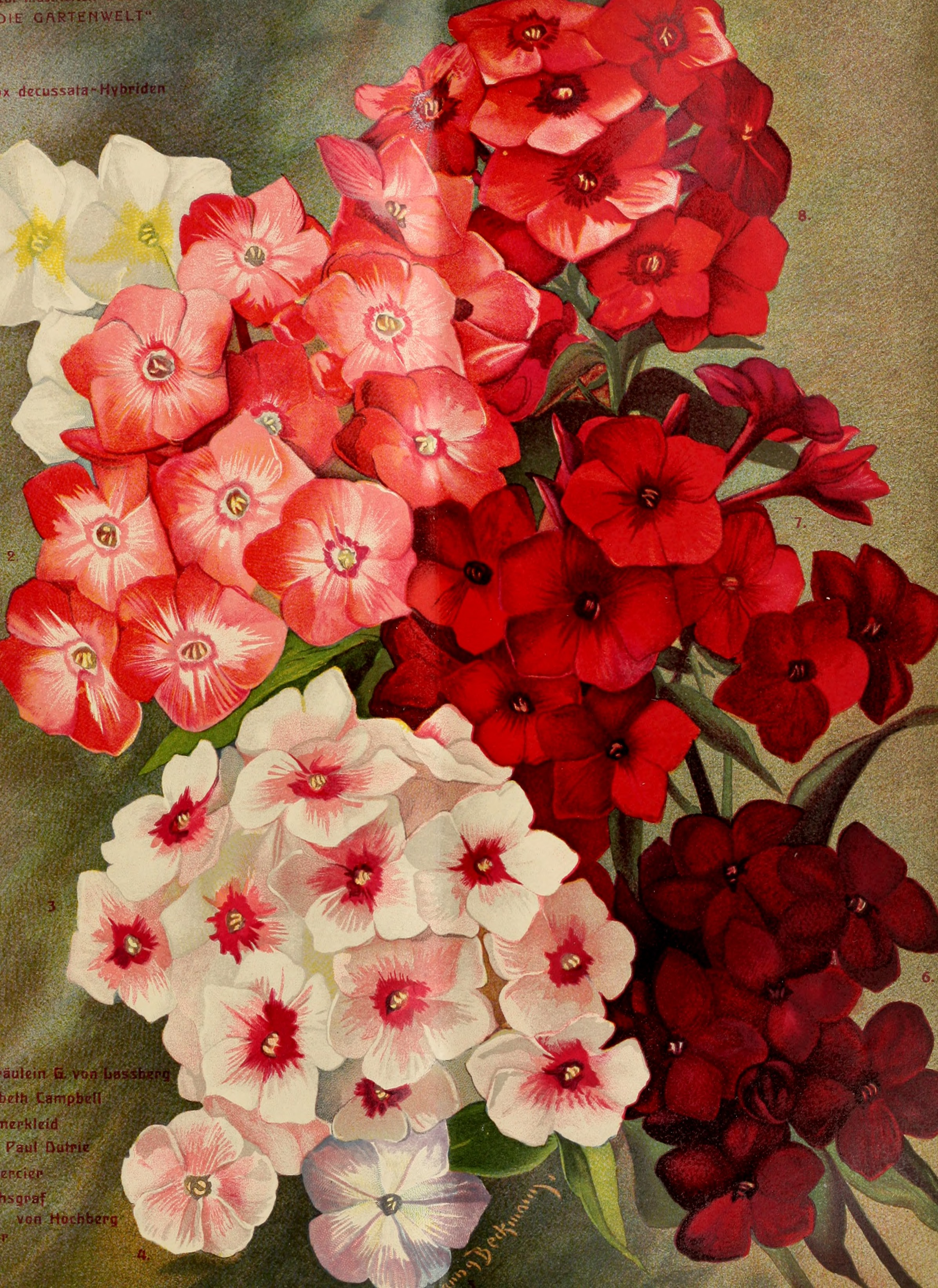 Title: Die Gartenwelt Year: 1897 (1890s) Authors: Subjects: Gardening Publisher: Berlin : G. Schmidt Text Appearing Before Image: „DIE GART.ENWEL Phlox decussata- Text Appearing After Image: 1 Freifräulein 5. 2. ElisHbcJh .Campbell 3. Sommerkleid 4. Mme Paul Qurrie 5. fl. Mendel* 6. Reichsgraf von H